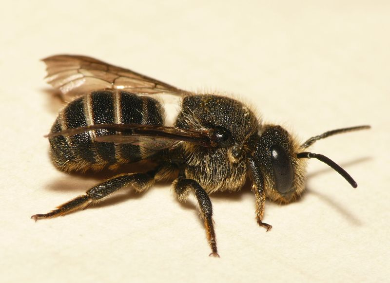 Stelis punctulatissima, female. Location: Rhenen - Blauwe Kamer - Gelderland (The Netherlands)